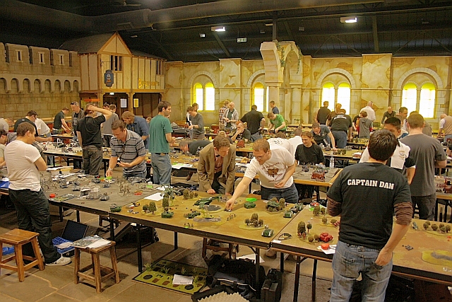 Warhammer Games Contestants taking part in a tournament of military fantasy games in the Games Workshop factory